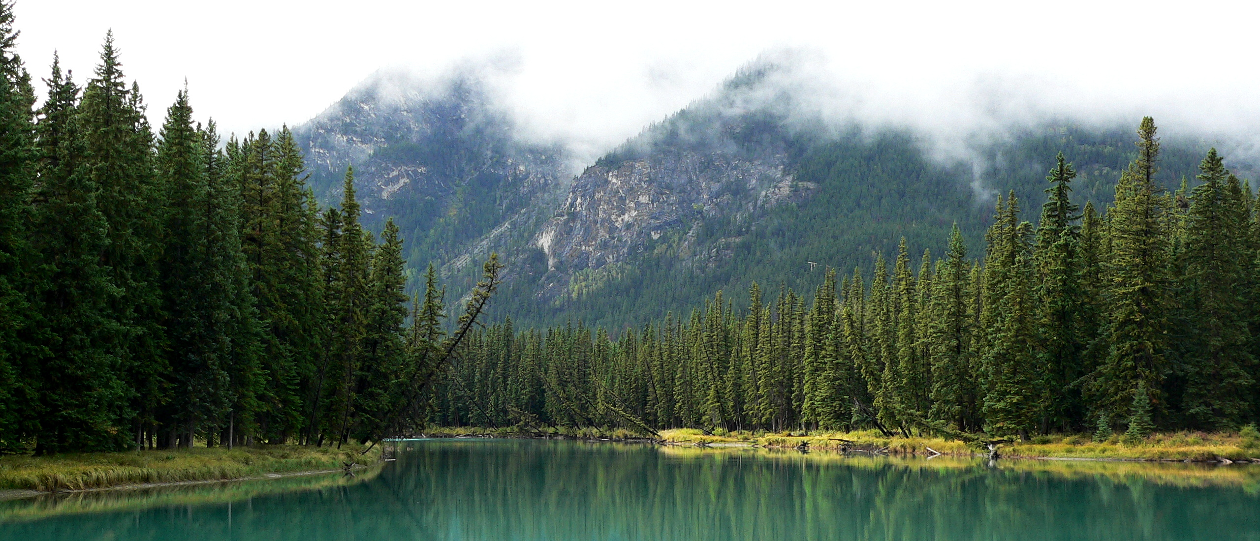 The Bow River near the Banff townsite in Alberta, Canada. Photo taken with a Panasonic Lumix DMC-FZ20.